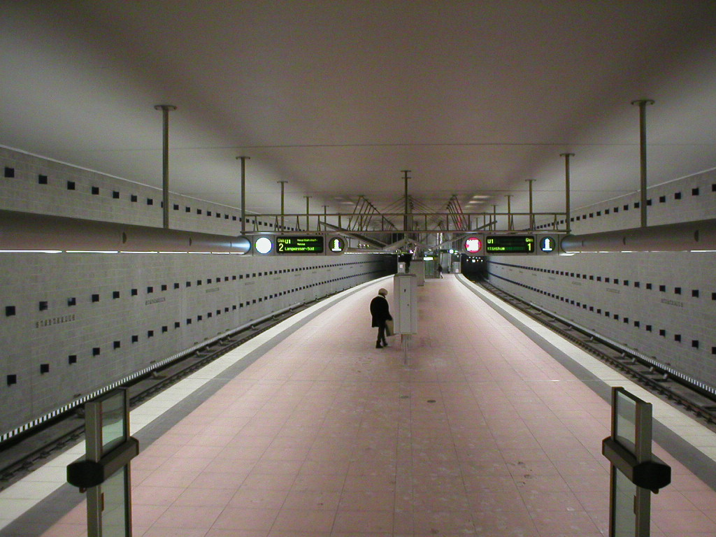 Fürth's underground station "Fürth Stadthalle", Fürth, Germany